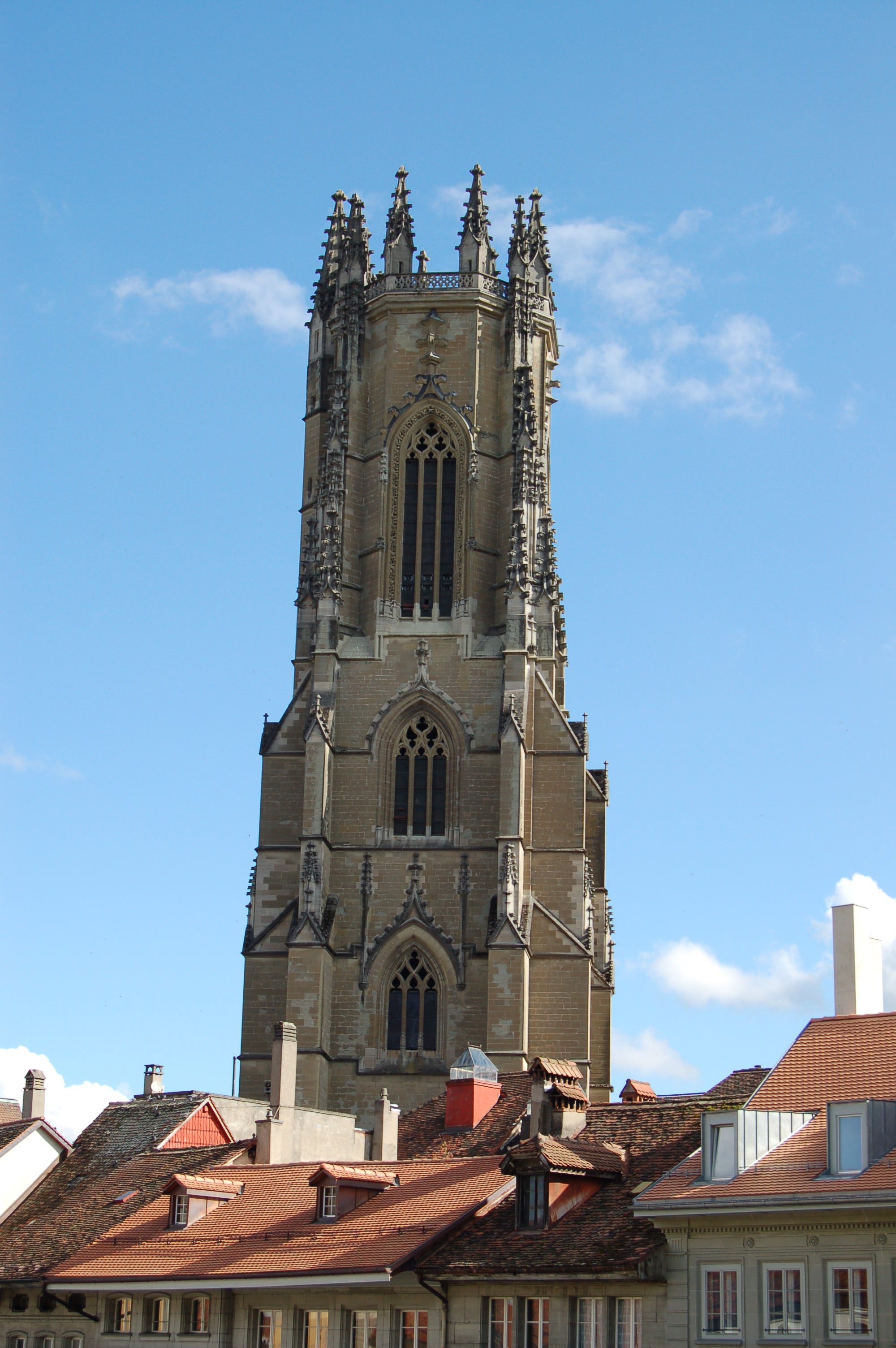 Fribourg, Switzerland